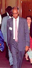 This is an image of Mauritanian diplomat and United Nations official Ahmedou Ould-Abdallah cropped from a larger image that includes Senegalese President Abdoulaye Wade and Sheila Sisulu, Deputy Executive Director of the United Nations World Food Programme, at the Sahel School Feeding Conference in Dakar, September 9-10, 2003. The original image is found at [1] on the official website of the United States Mission to the United Nations Agencies in Rome.